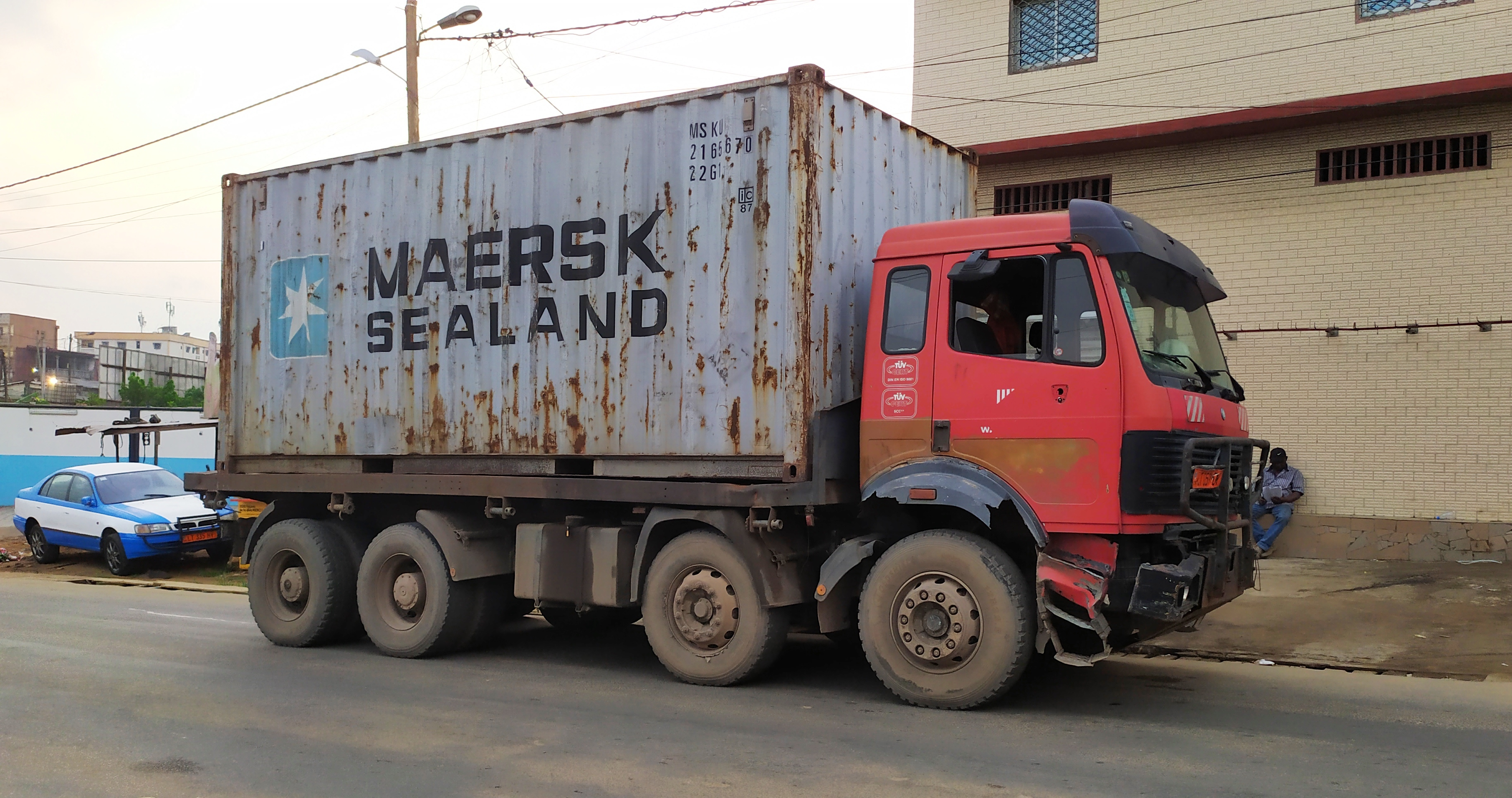 Transportation: Moving in Douala, vehicles on the roads and streets in Cameroon